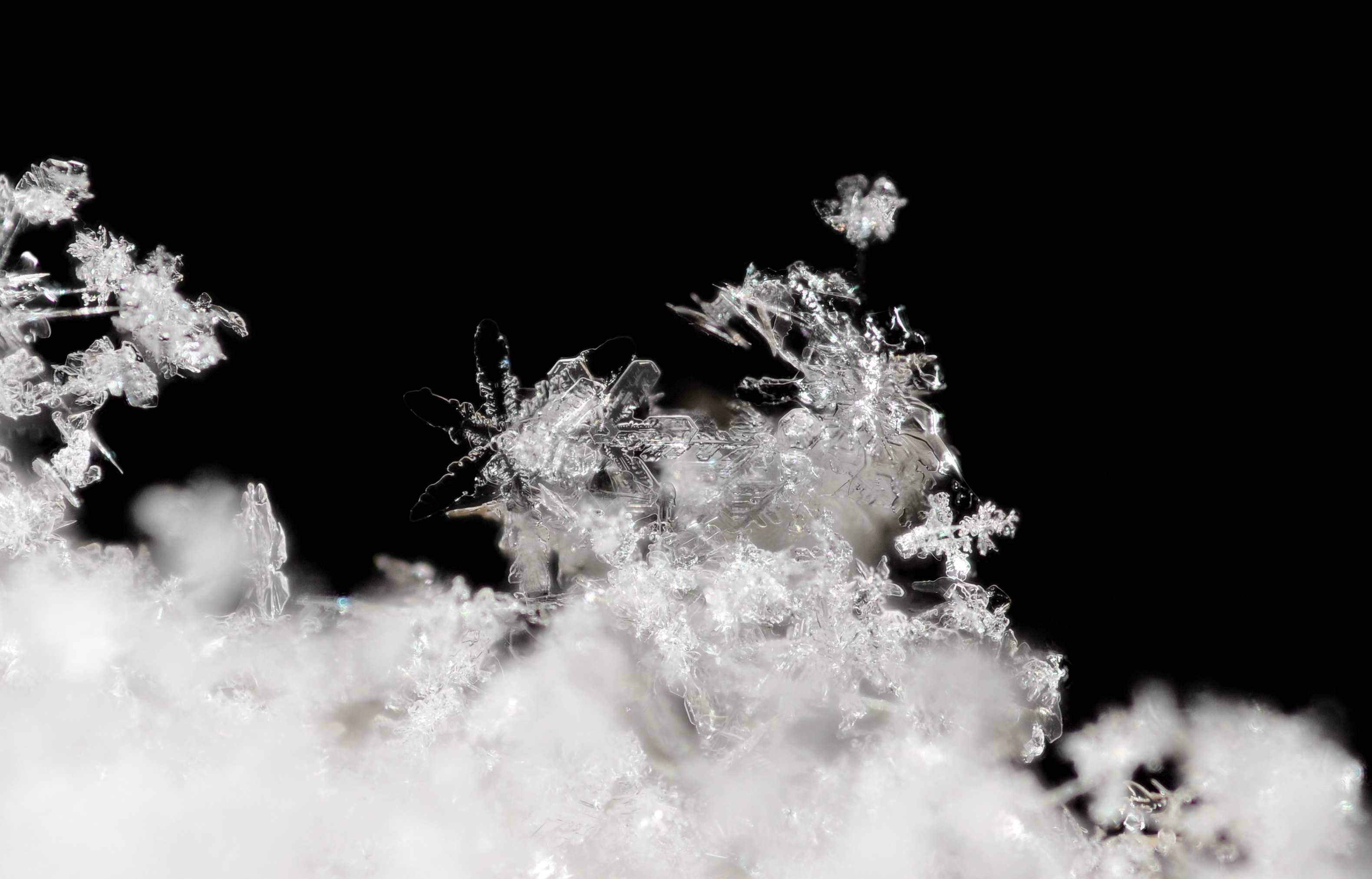 This photograph was taken with a Nikon D300 Focus stacking of 6 pictures (using Zerene Stacker).Cristaux de neige (focus stacking). Image composée de 6 photos prises avec la bonnette Raynox DCR-250 et assemblées avec Zerene Stacker.